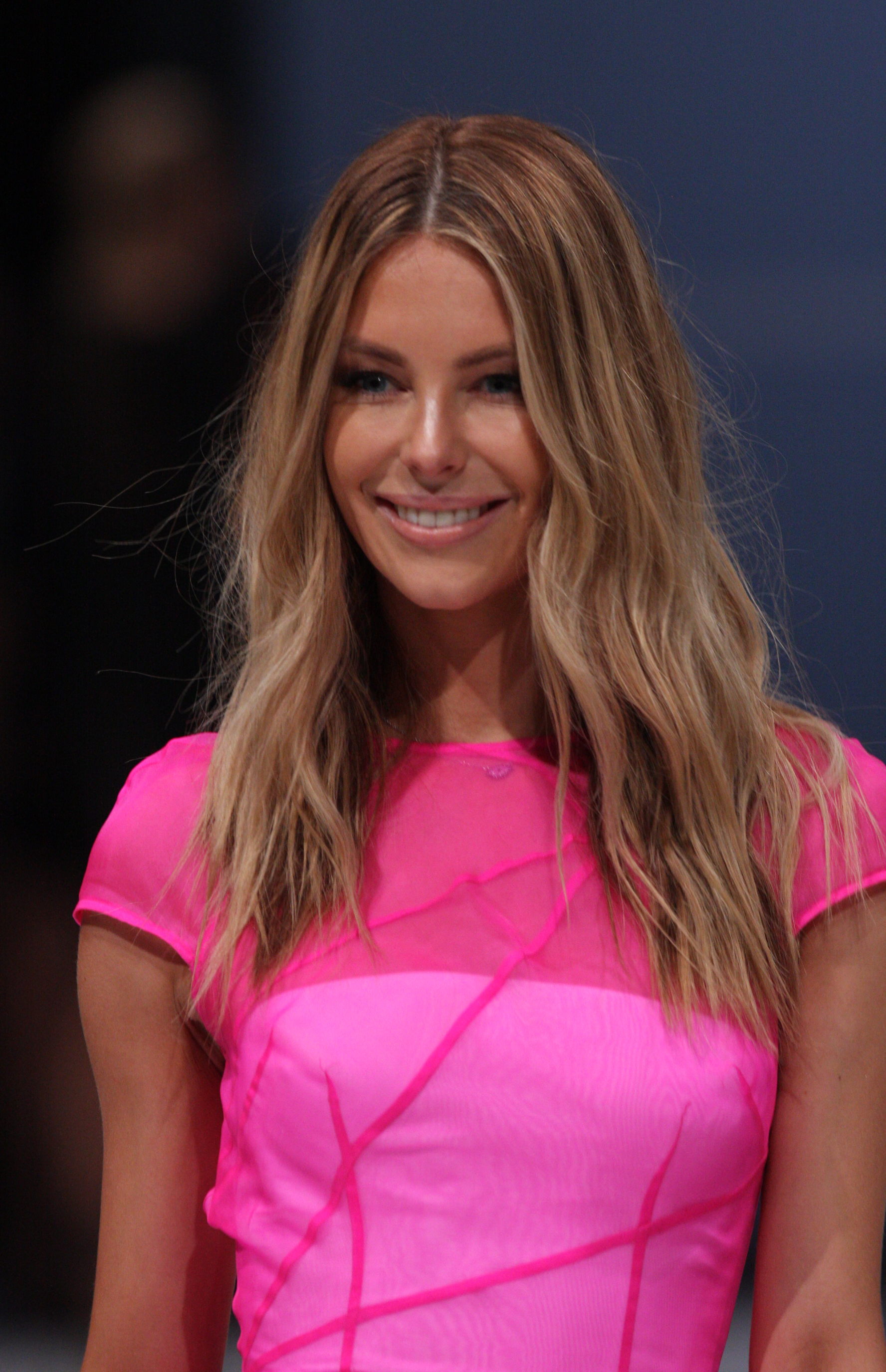 Myer Fashion Spring Launch 2015. Jennifer Hawkins showcases designs by Alex Perry